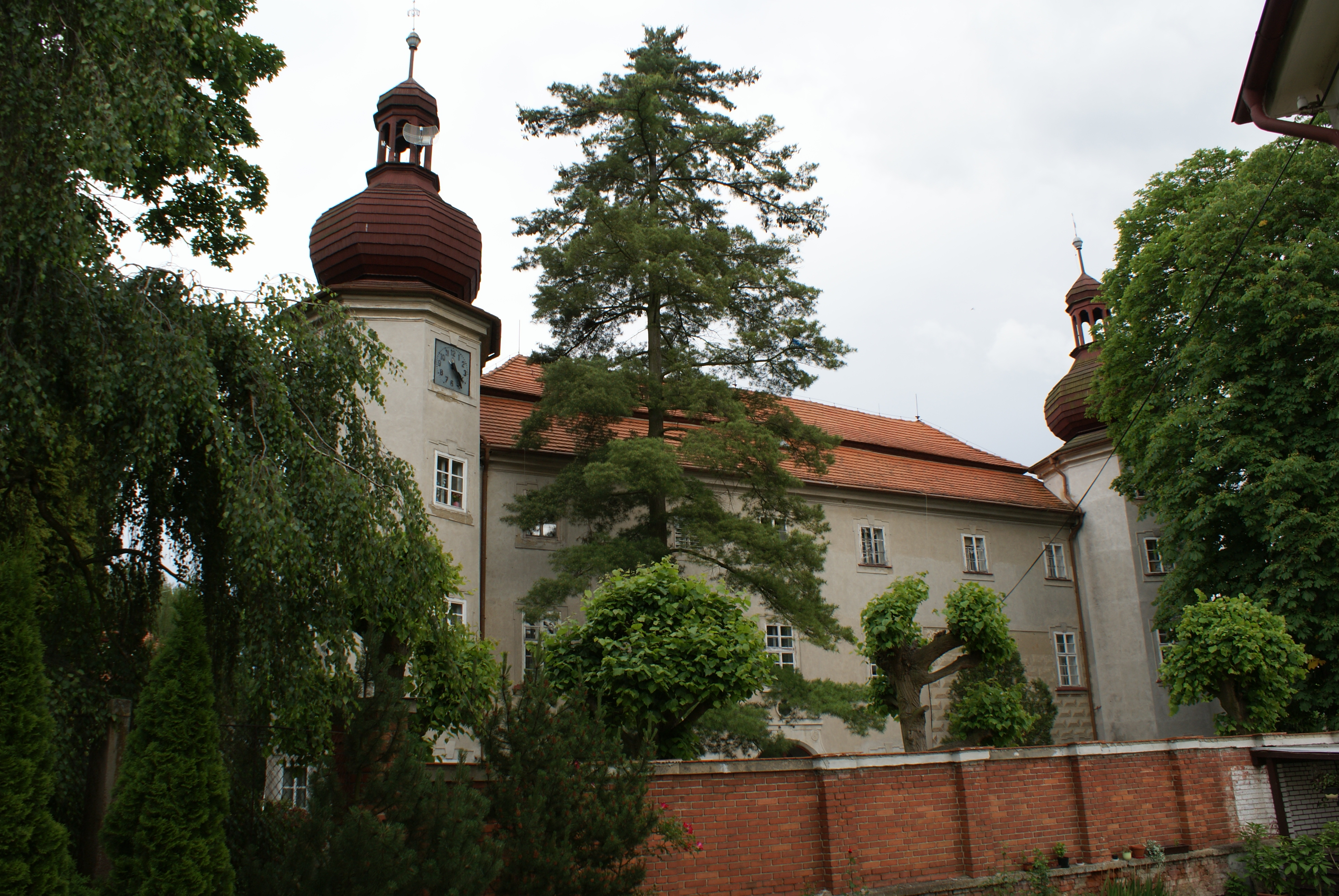 Charlotte Masaryk's children's sanatorium in Bukovany. Česky: Dětská léčebna CH. Masarykové v Bukovanech